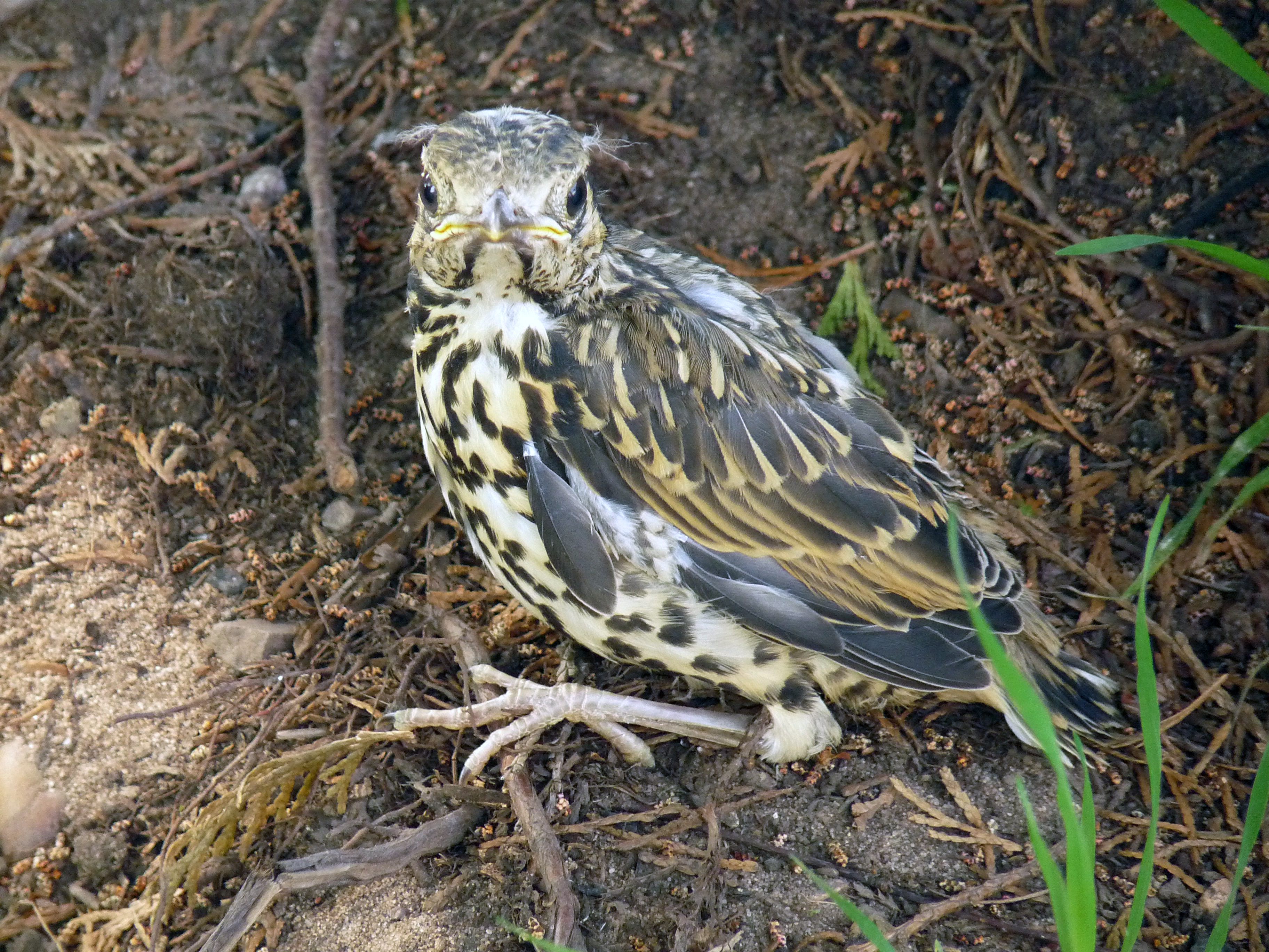 Latin name Turdus viscivorus Family Chats and thrushes (Turdidae) Overview This is a pale, black-spotted thrush - large, aggressive and powerful. It... Where to see them ... When to see them All year round. Watch for flocks in July and August. What they eat Worms, slugs, insects and berries.